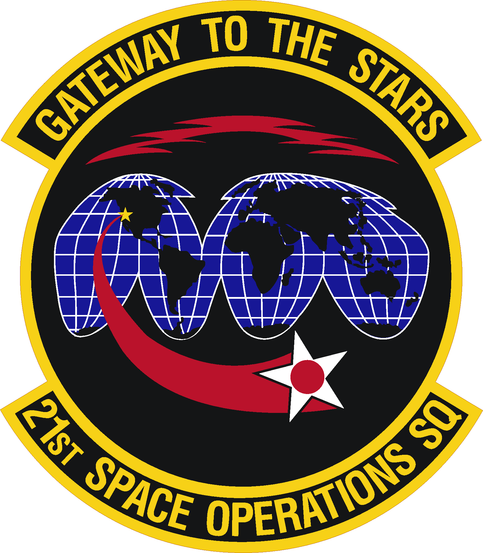 Emblem of the 21st Space Operations Squadron (21 SOPS) of the United States Air Force Blazon: Sable, a mercator projection map fesswise Azure, gridlined Argent, land masses of the first between in chief a lightning flash fesswise Gules and in sinister base a mullet White pierced Red and issuing a contrail of the like arcing to dexter in perspective and terminating at a mullet Or on the map at the west coast of North America; all within a diminished bordure Yellow. Significance: Blue and yellow are the Air Force colors. Blue alludes to the sky, the primary theater of Air Force operations. Yellow refers to the sun and the excellence required of Air Force personnel. The disc is black symbolizing space, the area of mission operations for the squadron. The map of the world denotes the unit's worldwide support of the Air Force Satellite Control Network. The stars represent an orbiting satellite and its earth control station linked by a communication band. The lightning bolt stands for the speed of the unit’s communication links.